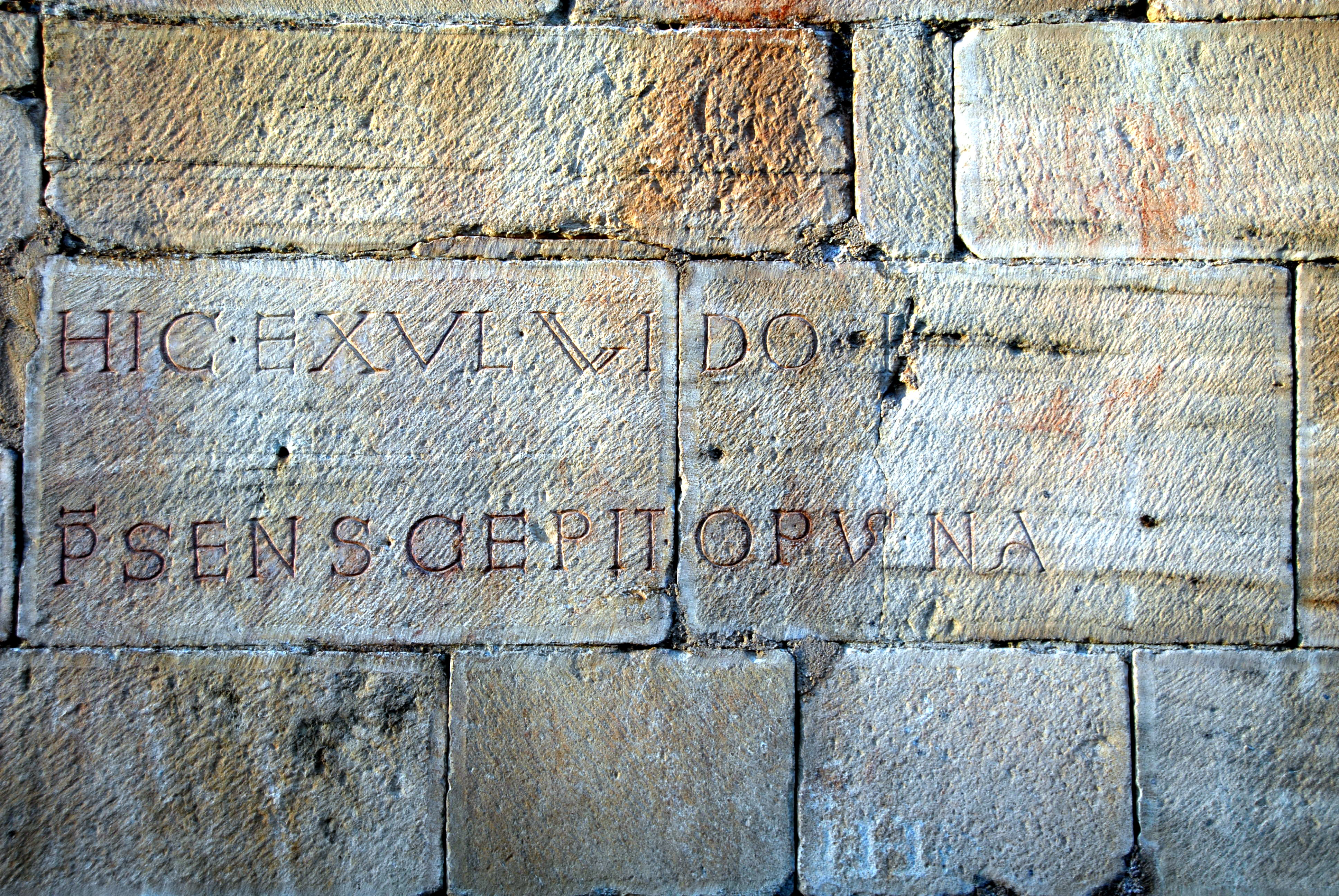 Inscription stone "HIC EXUL WIDO", southern exterior wall of the Cathedral of Gurk, municipality Gurk, district Sankt Veit an der Glan, Carinthia / Austria / EU